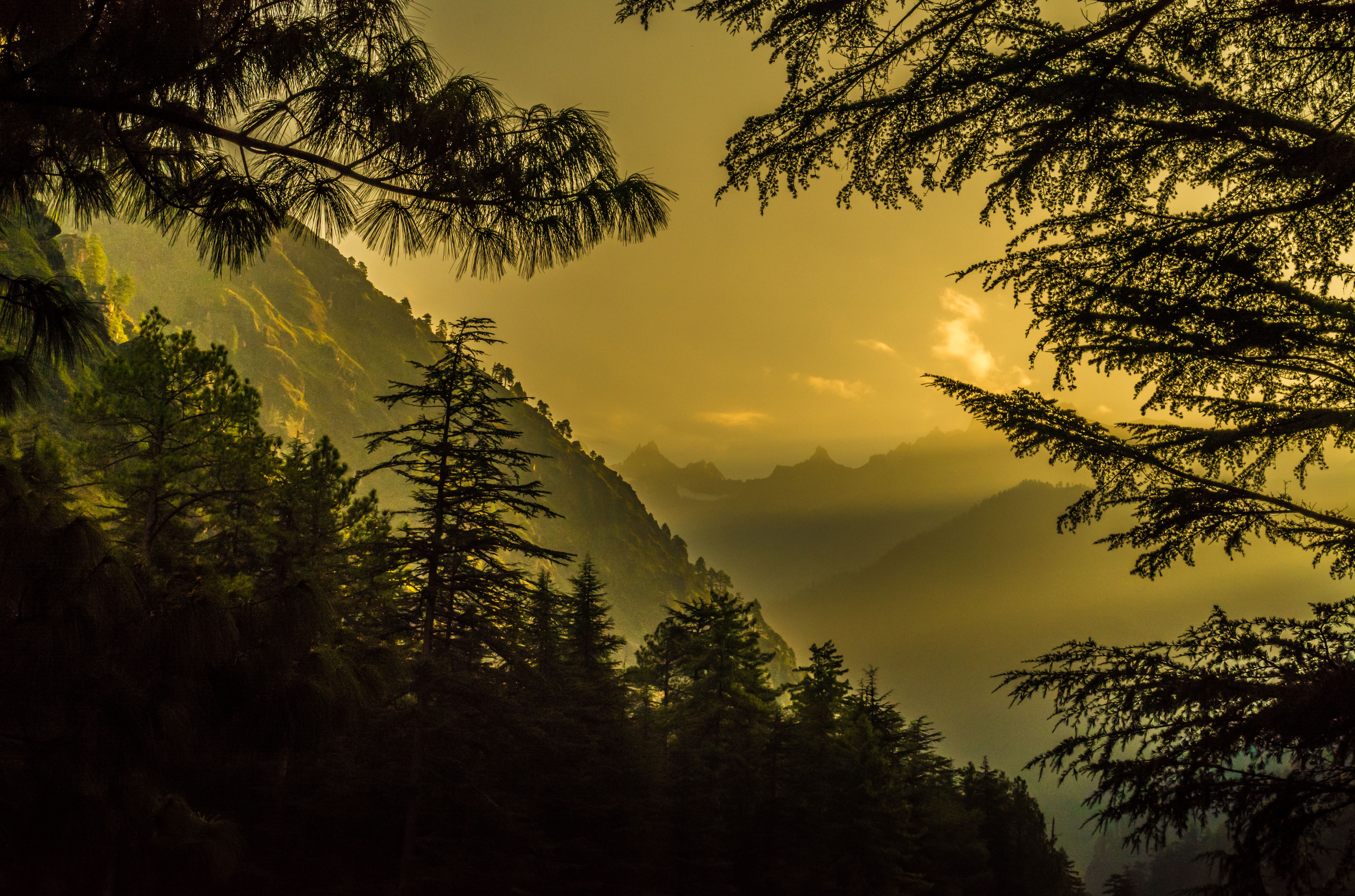 Kasol Village situated on the banks of the Parvati River at the height of 1640 meters in Himachal Pradesh